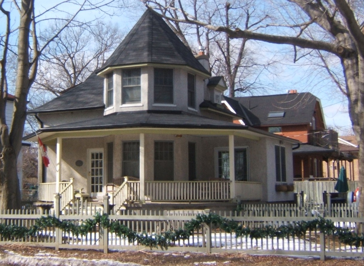 Old Beach House on Lake Promenade at 35th Street, looking northwest, Long Branch, Toronto